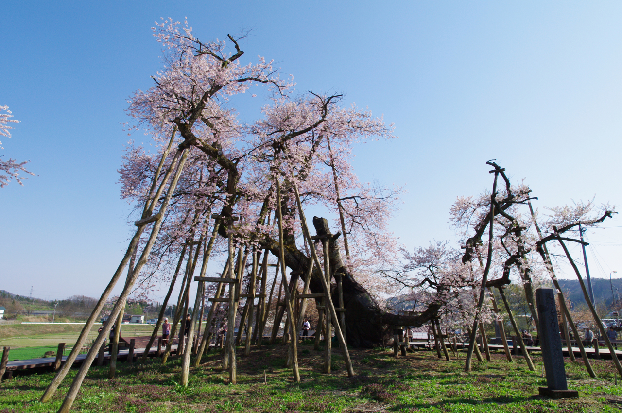 伊佐沢の久保桜. Kubo-zakura Cherry Blossom of Isazawa